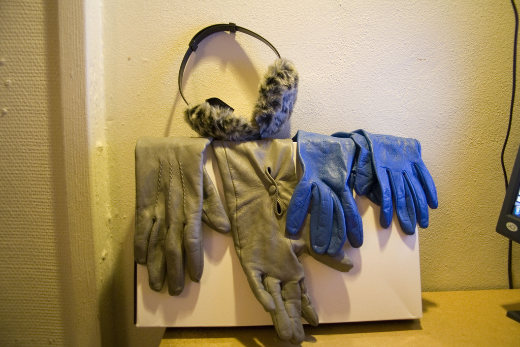 Leather gloves and ear warmers for cold winter days